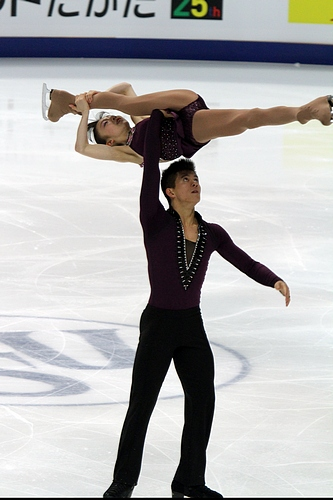 Narumi TAKAHASHI and Mervin TRAN at the 2011 World Figure Skating Championships